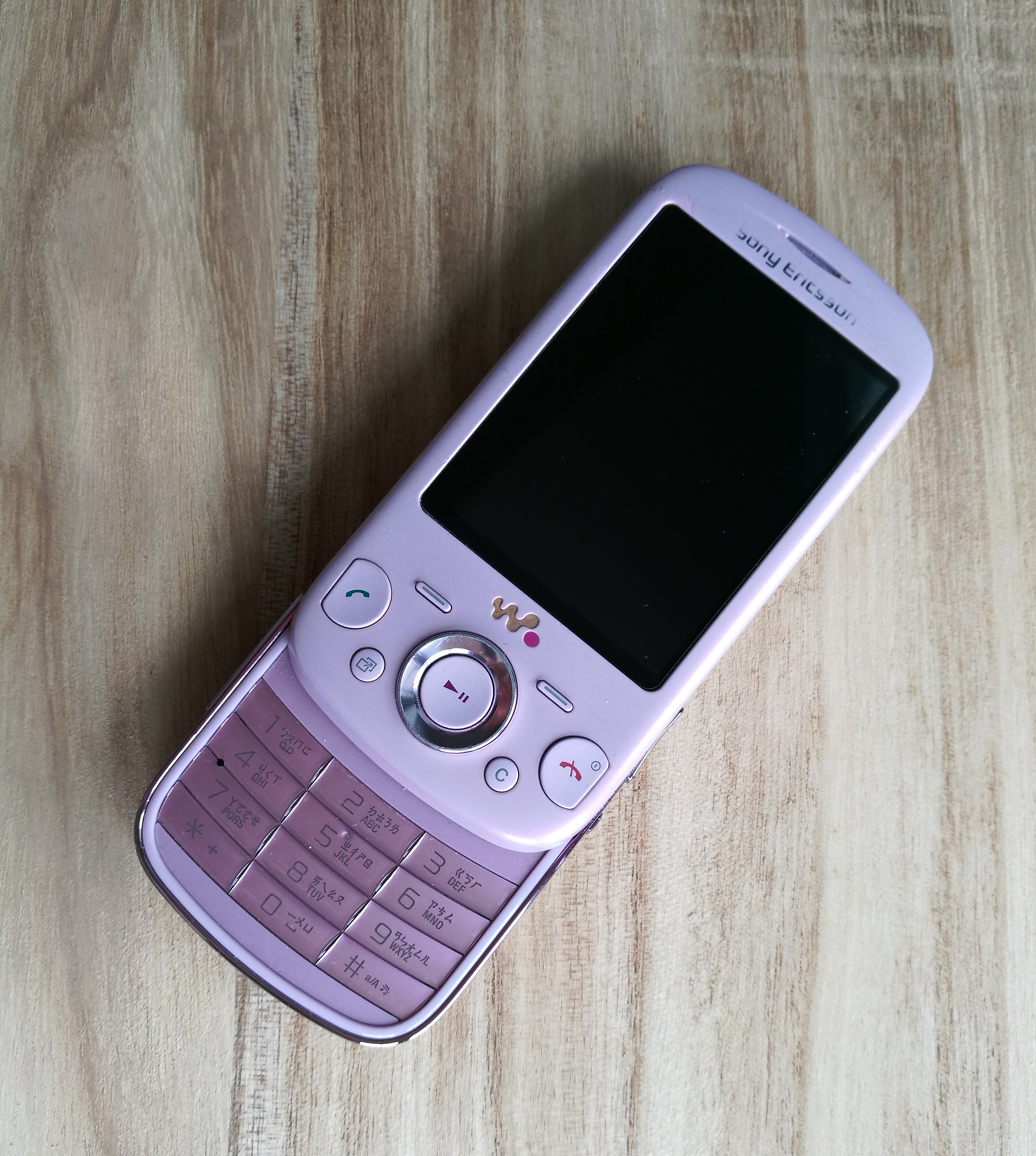 Sony Ericsson Zylo W20